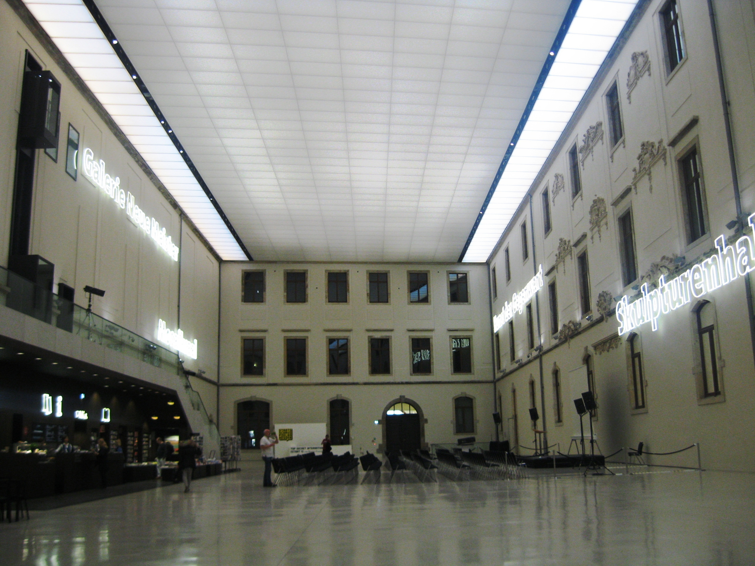 Entry hall in Albertina (Dresden)